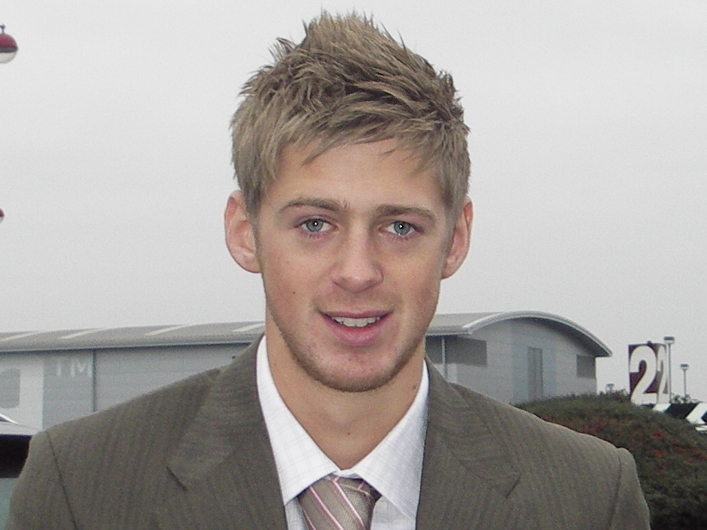 Jon Stead, Derby County player.